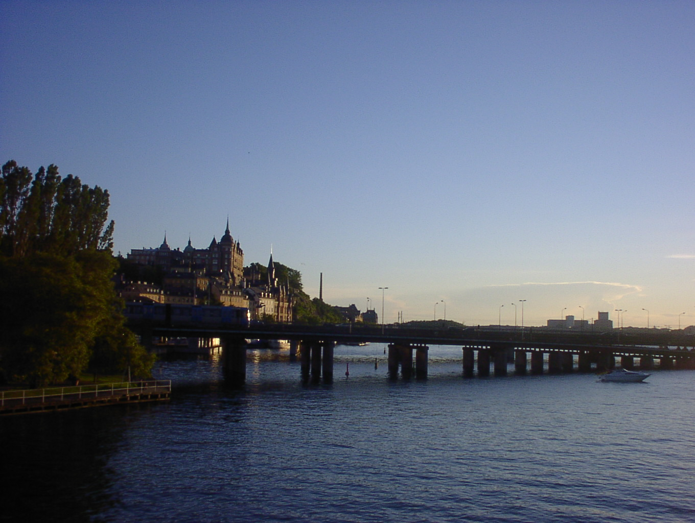 Stockholm City, Sweden